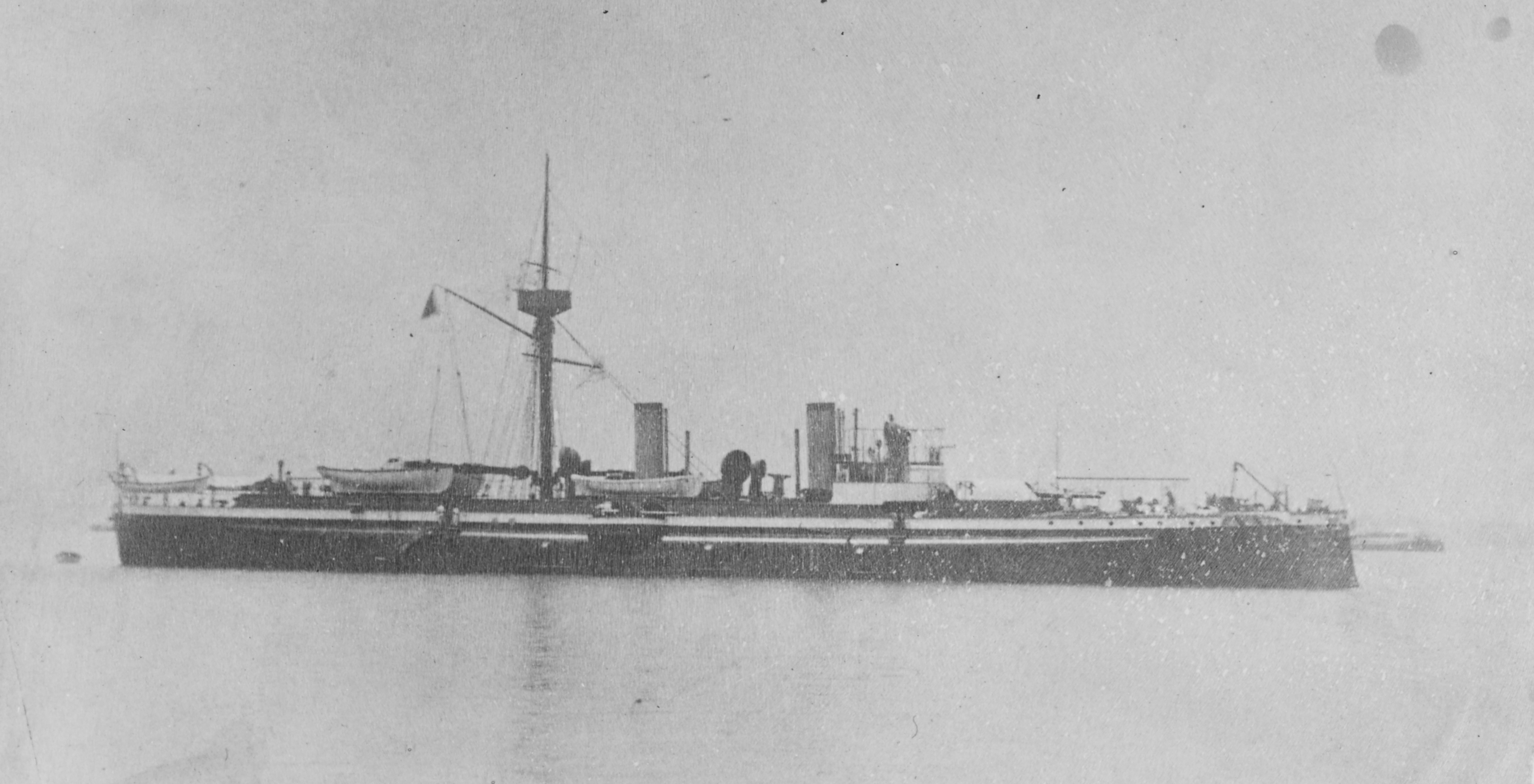 "Chinese warship KING-YUEN". The ship is now commonly referred to as the Jingyuan. It served from 1887 until sunk at Yalu in 1894.